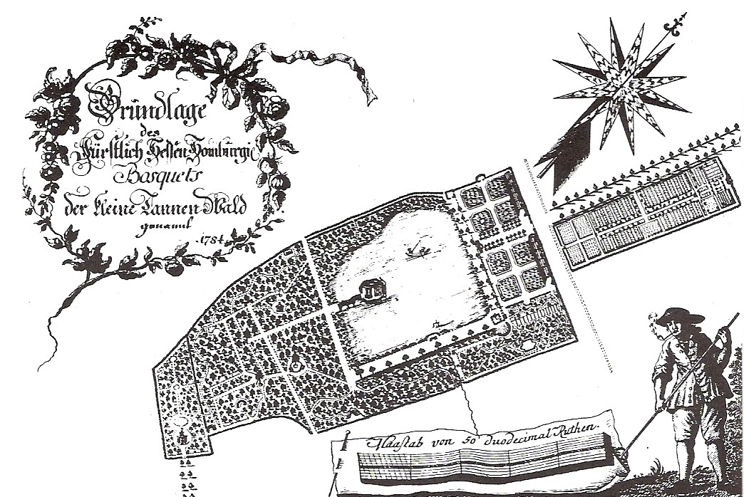 Map of "Kleiner Tannenwald" in the year 1784, part of the gardens of the counts of Hessen-Homburg, Bad Homburg, Germany, by Cöntgen/Gunkel